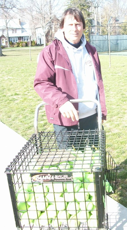 Summit tennis coach Vinnie Turturiello after a practice session. He coaches 18 young men who practice two hours daily on tennis fundamentals and challenge matches. Coach "T" says they're highly competitive and have a great work ethic and they are a "pleasure to coach" and he welcomes their enthusiasm. Photo taken with explicit permission by Mr. Turturiello. Questions? Email him at or write me at my Wikipedia handle of Tomwsulcer.